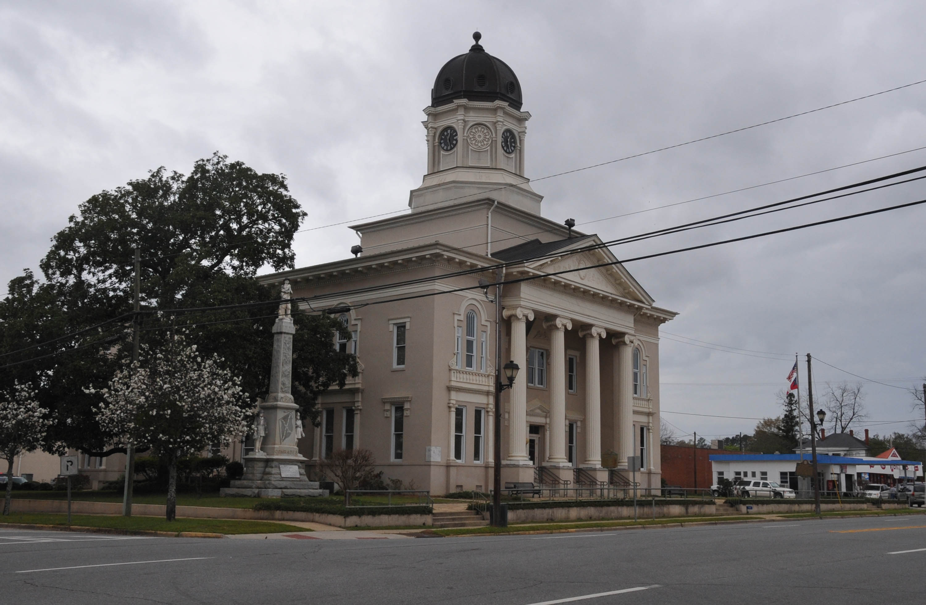 BUILT IN 1874 CLASSICAL REVIVAL STYLE; PULASKI COUNTY WAS NAMED FOR REVOLUTIONARY WAR HERO CASIMIR PULASKI